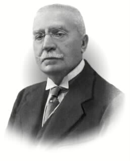 Ivan Evstratiev Geshov, Bulgarian politician